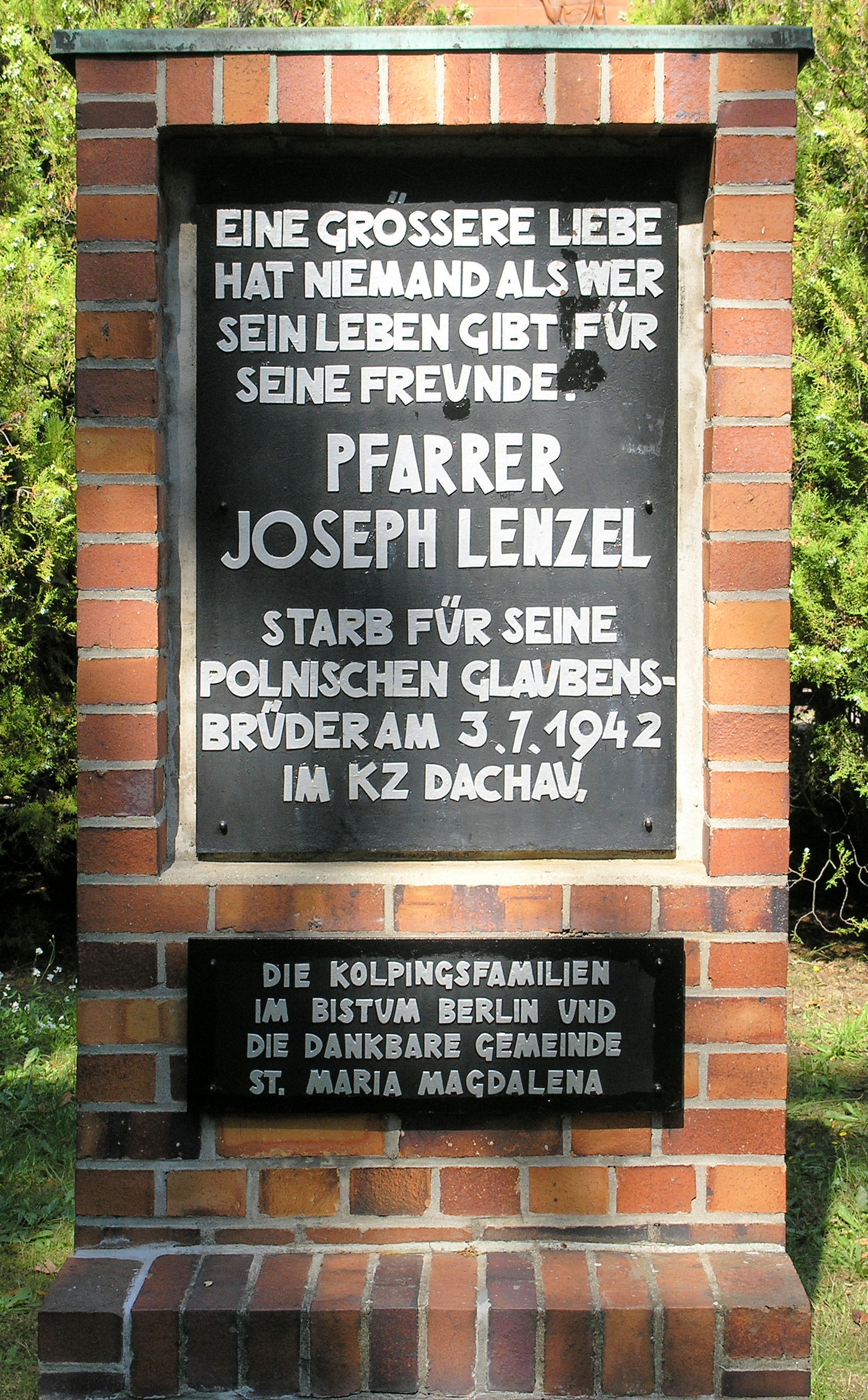 Memorial plaque, Joseph Lenzel, Platanenstraße 22, Berlin-Niederschönhausen, Germany